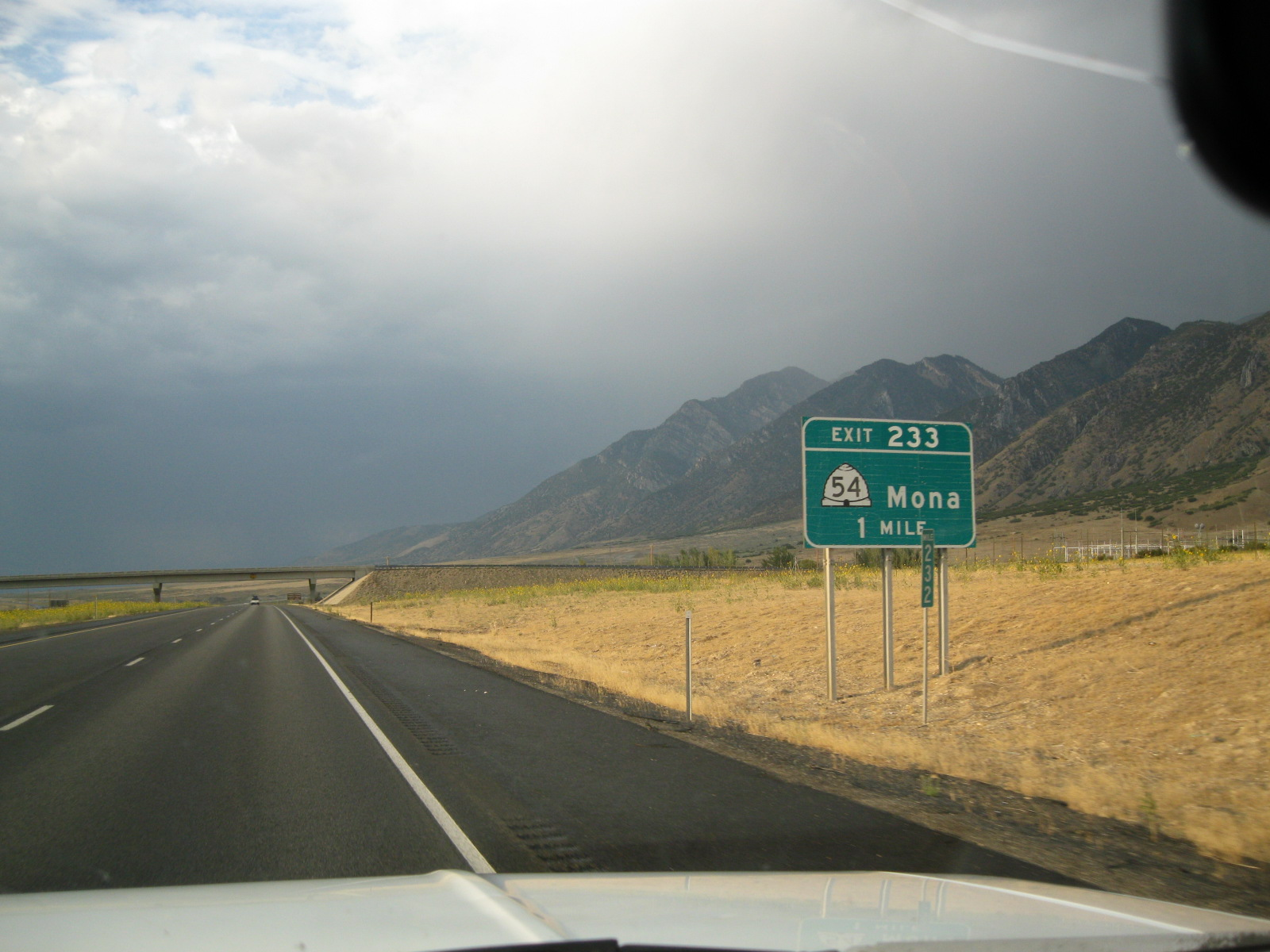 UT-54 BGS off of I-15 near Mona